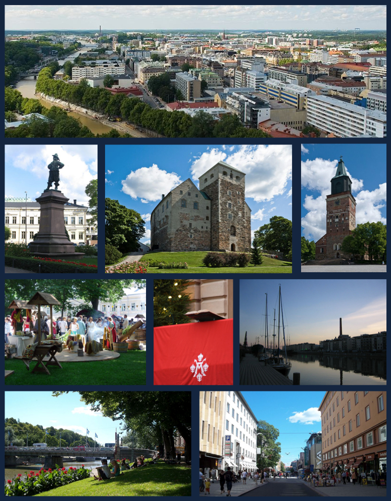 Images, from top, left to right: Top: Panorama of Turku from the tower of Turku Cathedral by Markus Koljonen (Dilaudid) (CC-by-sa-3.0) Second row, left: Statue of Per Brahe by Zache (CC-by-sa-3.0 & GFDL) Second row, center: Turku Castle by Markus Koljonen (Dilaudid) (CC-by-sa-3.0) Second row, right: Turku Cathedral by Markus Koljonen (Dilaudid) (CC-by-sa-3.0) Third row, left: Turku medieval market by Samuli Lintula (CC-by-2.5) Third row, center: Turku Christmas Peace balcony by Magnus Franklin (Creative Commons Attribution 2.0) Third row, right: Aura river at night by Ville Säävuori (Creative Commons Attribution ShareAlike 2.0) Bottom left: Aura river in summer by Arthur Kho Caayon (Creative Commons Attribution 2.0) Bottom right: Main pedestrian only street in CBD by Arthur Kho Caayon (Creative Commons Attribution 2.0)